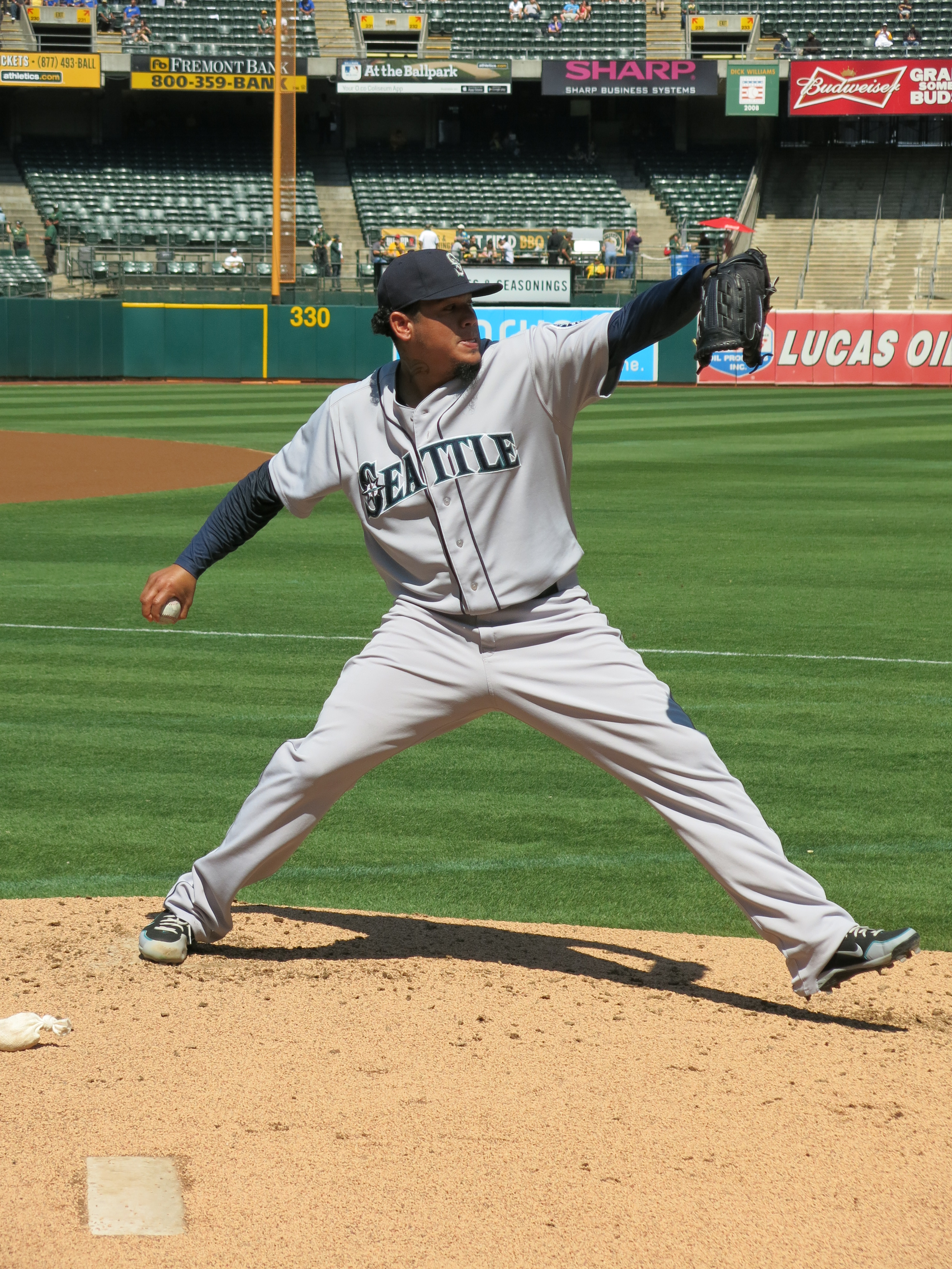 Seattle Mariners starter Félix Hernández warms up in the bullpen before a game against the Oakland Athletics in Oakland, September 2014.